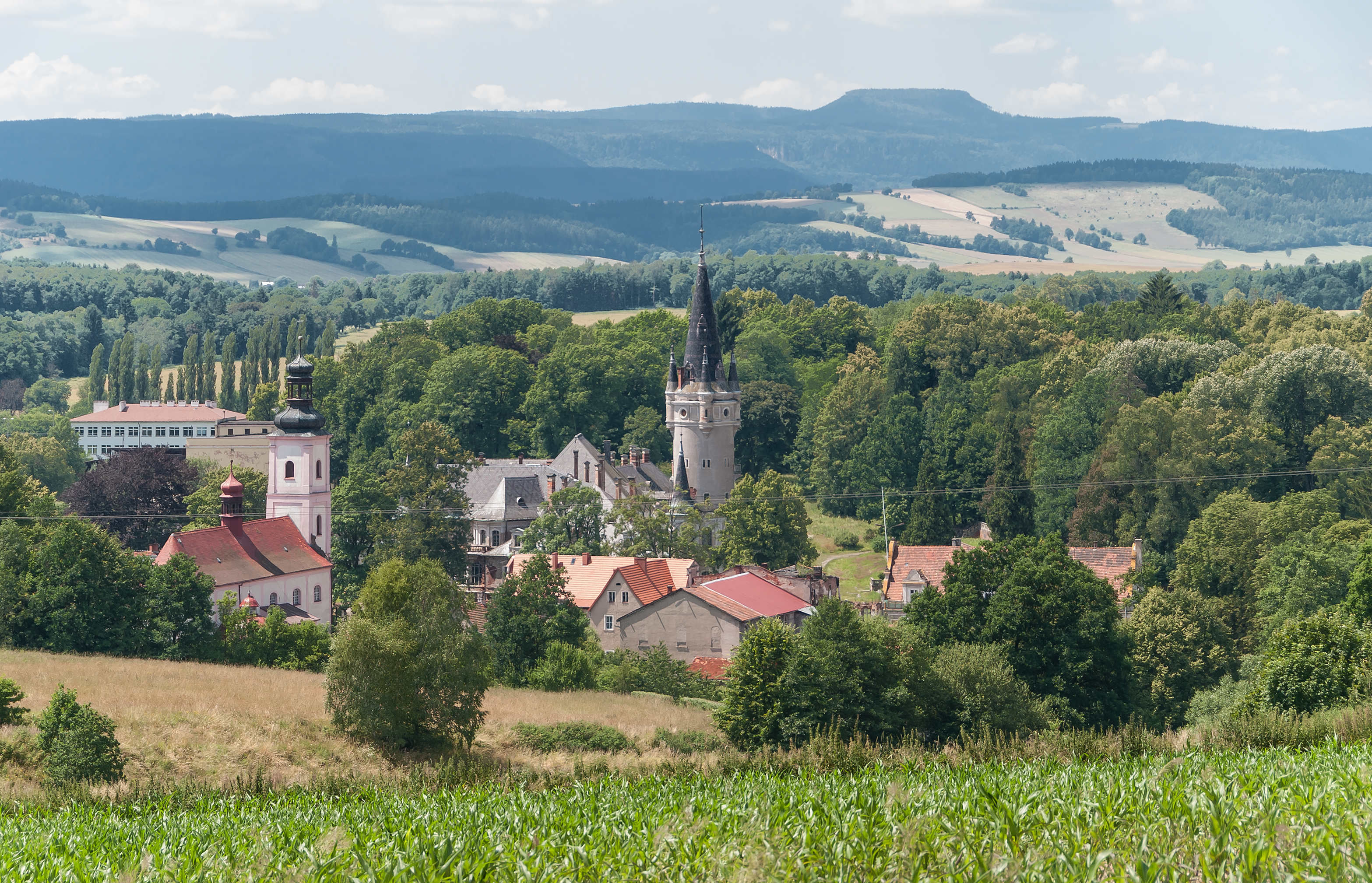 Bożków